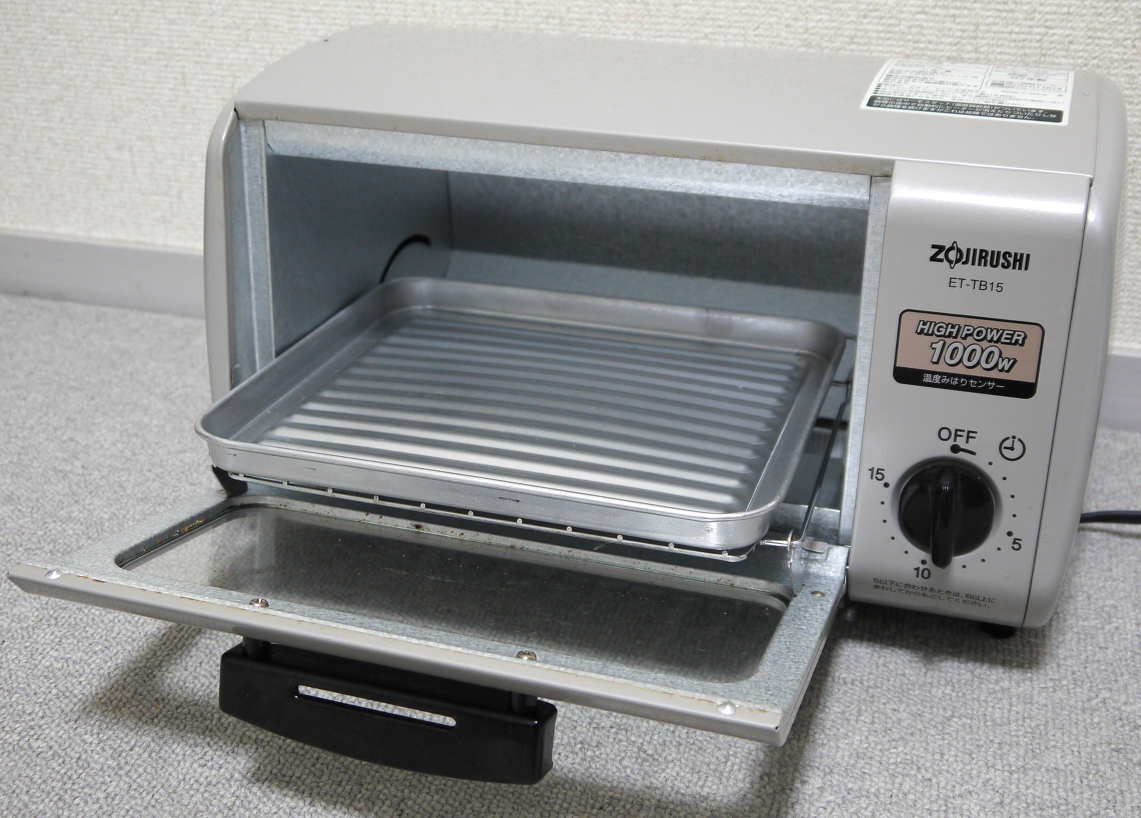 Zojirushi toaster oven ET-TB15